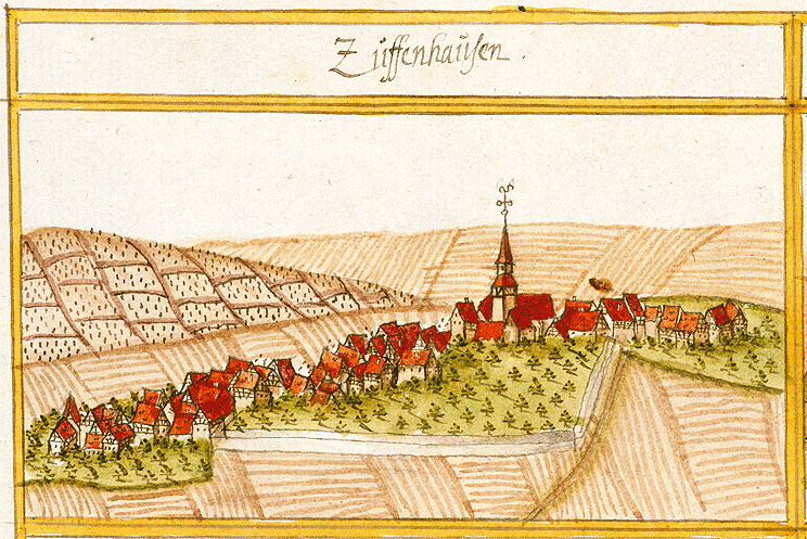 View of Zuffenhausen from the forest register books created by Andreas Kieser